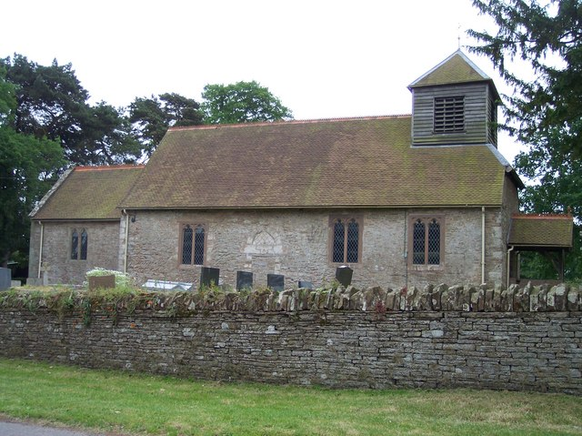 St. Leonards Church, Hatfield. Famous for its bells dating back to the 13th century.